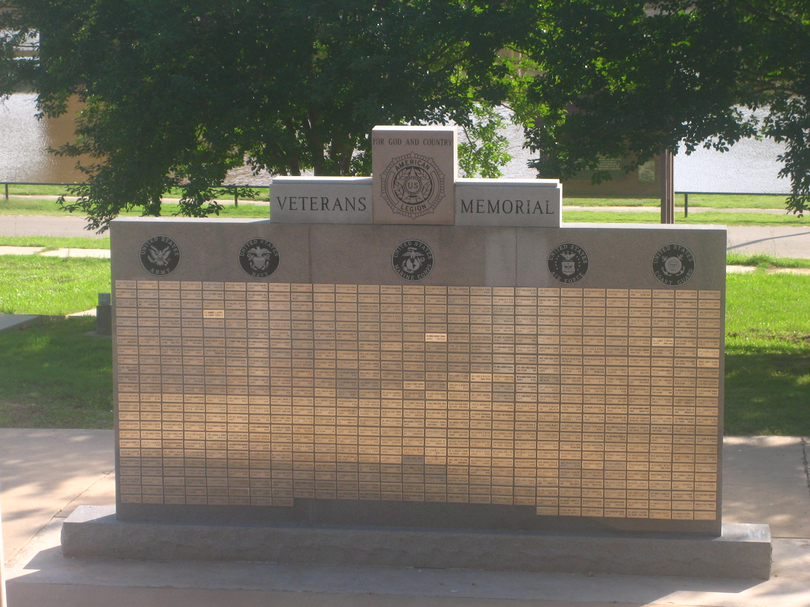 Logansport Veterans Memorial, Logansport, Lousiana